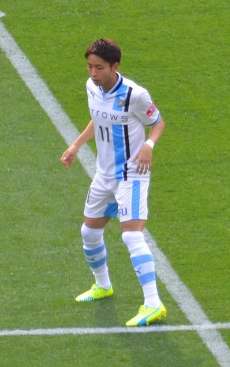 Yu Kobayashi before the Tamagawa Clasico - the match between FC Tokyo and Kawasaki Frontale - played at Ajinomoto Stadium 16th April 2016.